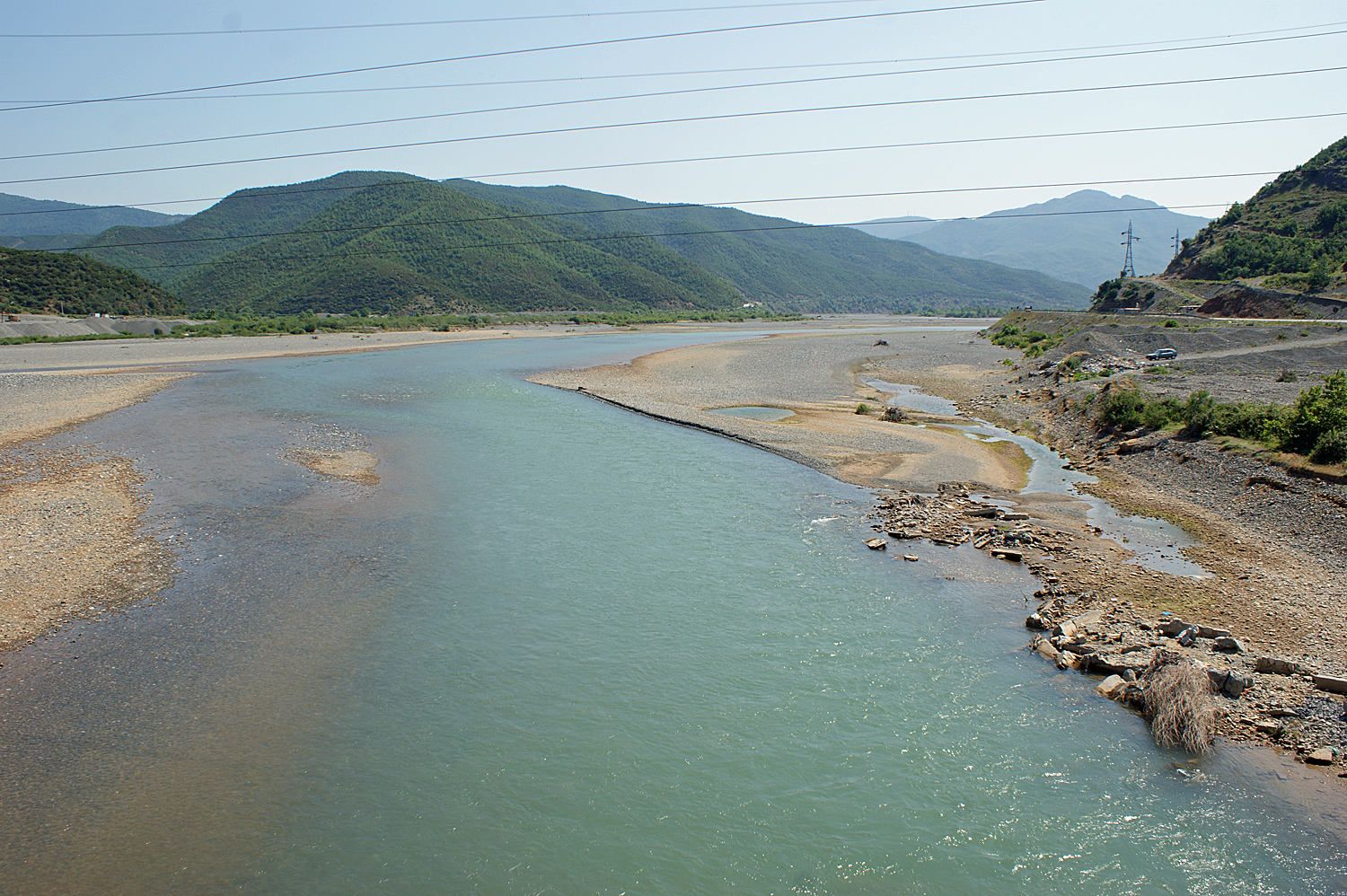 River Mat close to Milot – Albania